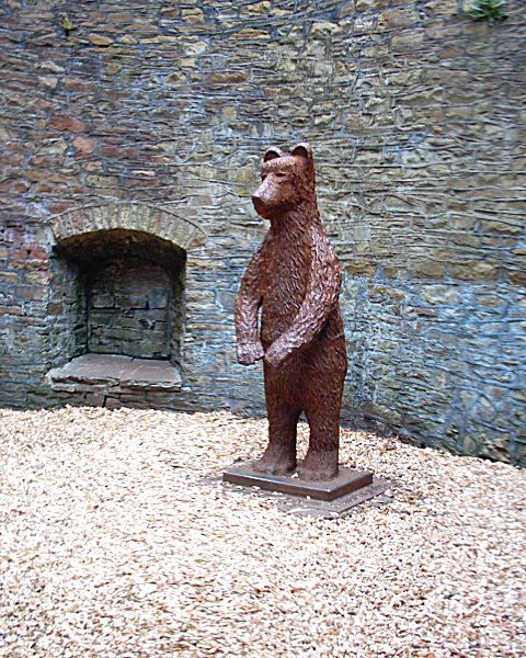 Sheffield Botanical Gardens.